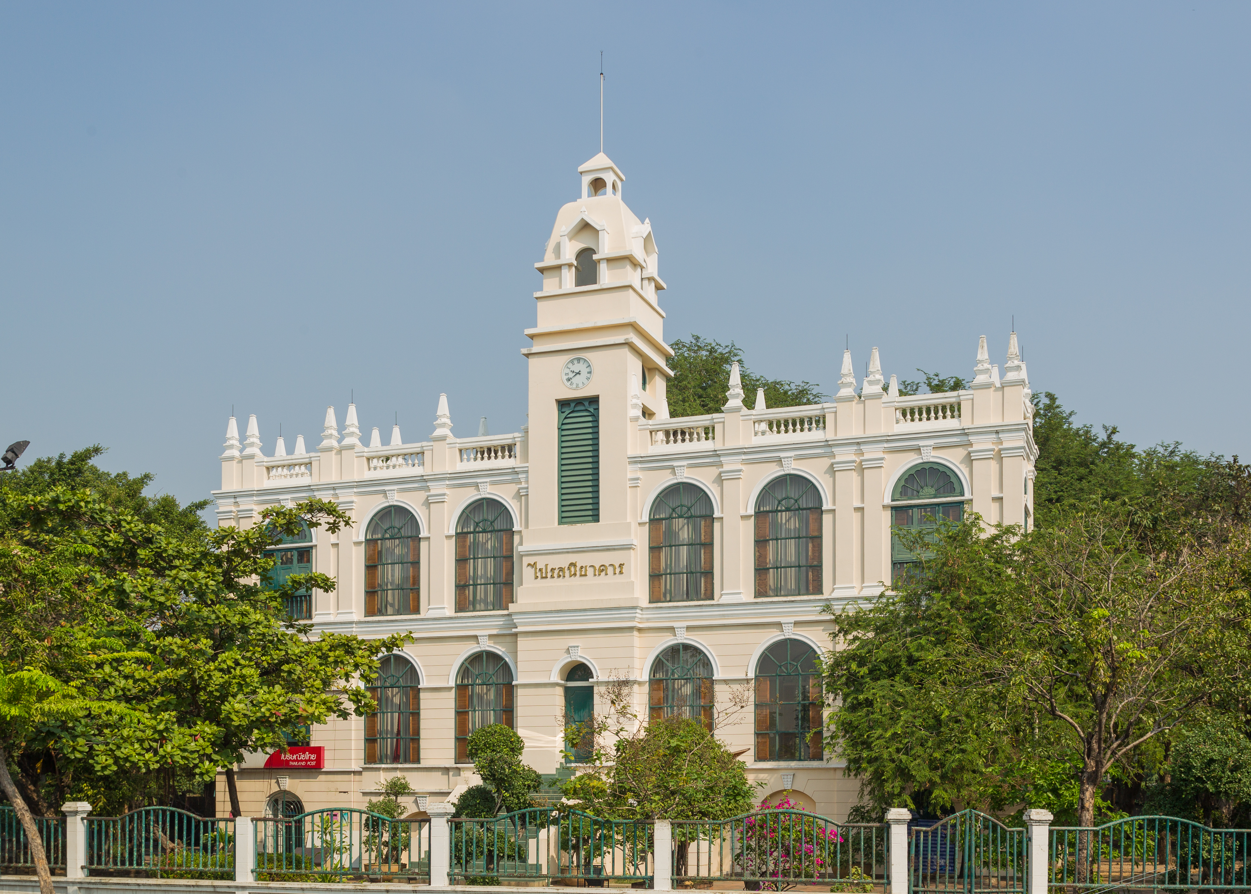 Bangkok Postal Headquarters, Bangkok.